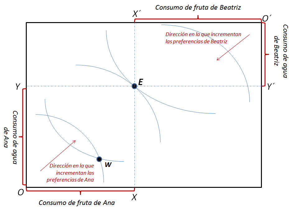 Edgeworth box